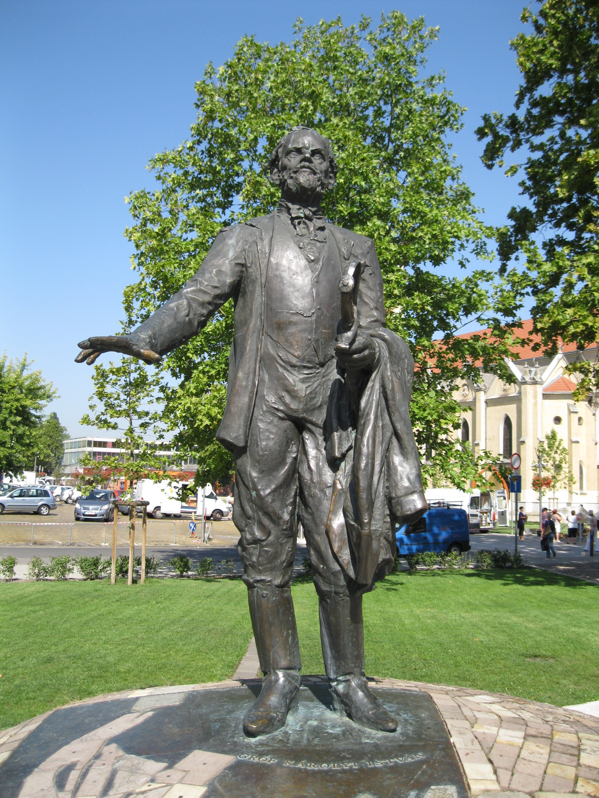 István Károlyi (1797–1881) statue in Budapest District IV